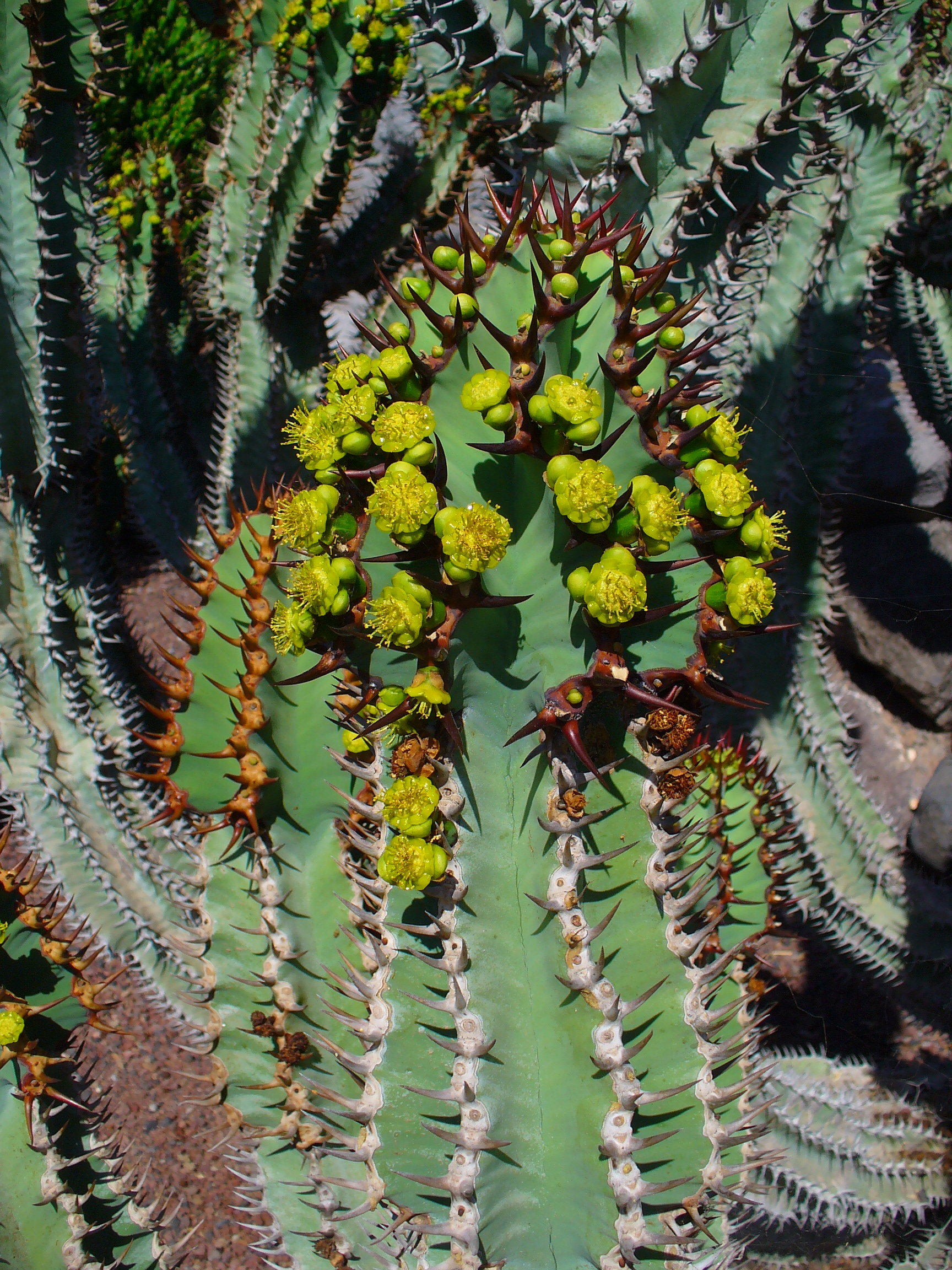 Slender Candelabra Euphorbia, Cyathia; Oasis Park, La Lajita, Fuerteventura, Canary Islands, Spain.